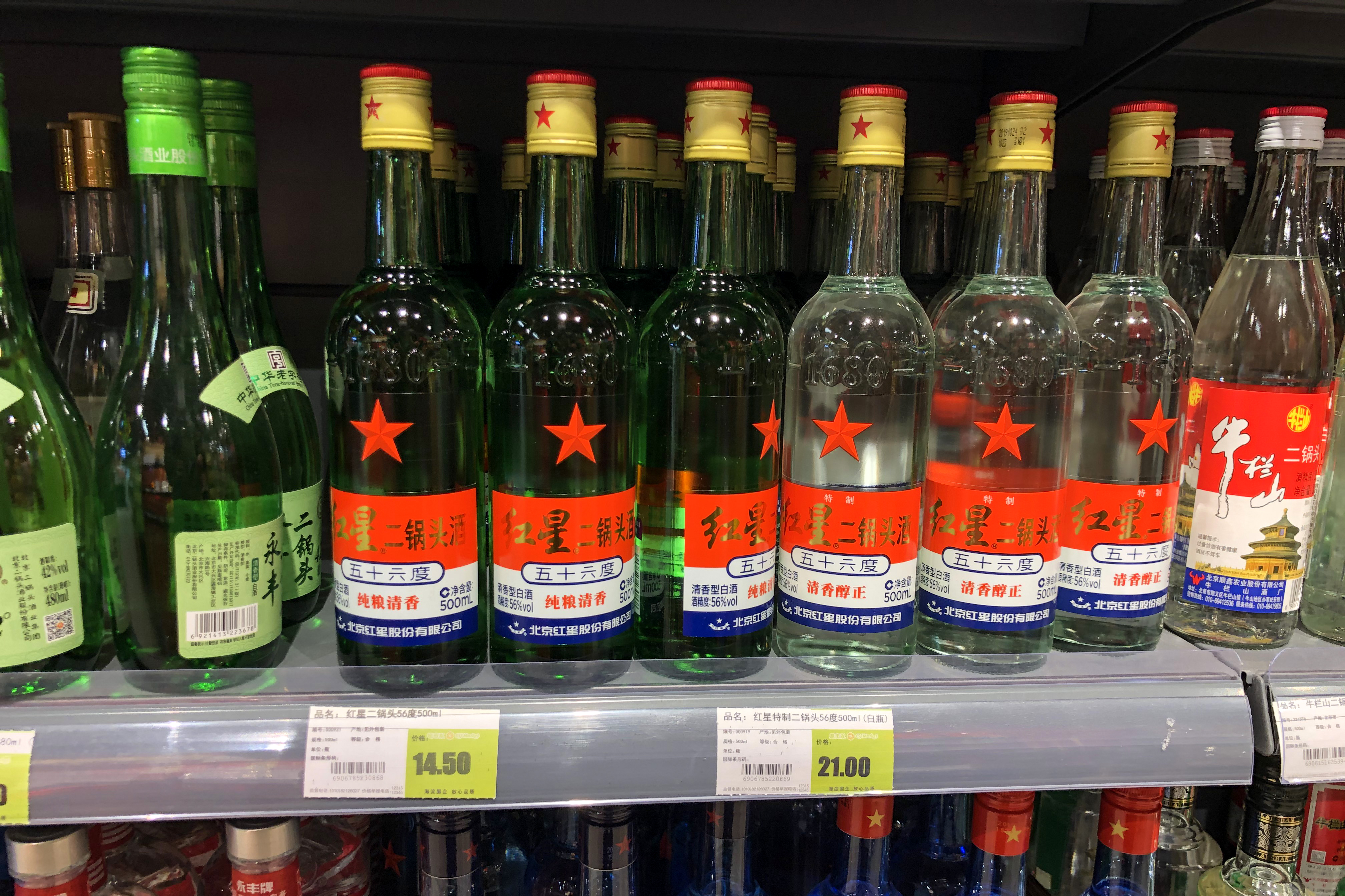 Red Star's classical green bottle 500mL 56%vol. This photo has been taken in the country: China